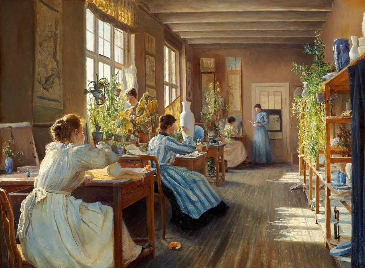 Women decorating porcelain at Den Kgl. Porcelansfabrik